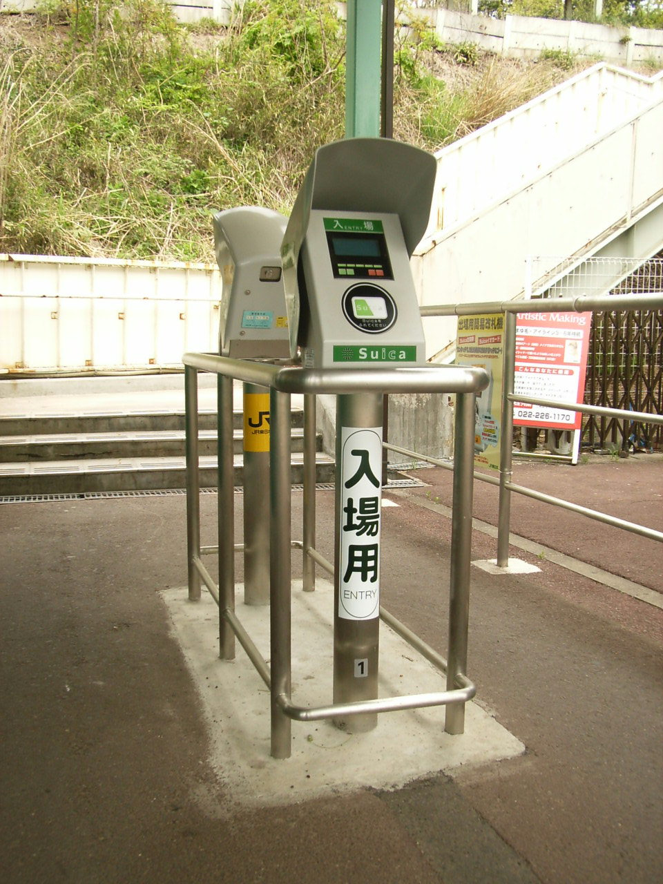 The unmanned ticket gate of the Kuzuoka Station. Gōroku, Aoba ward, Sendai, Miyagi prefecture, Japan.